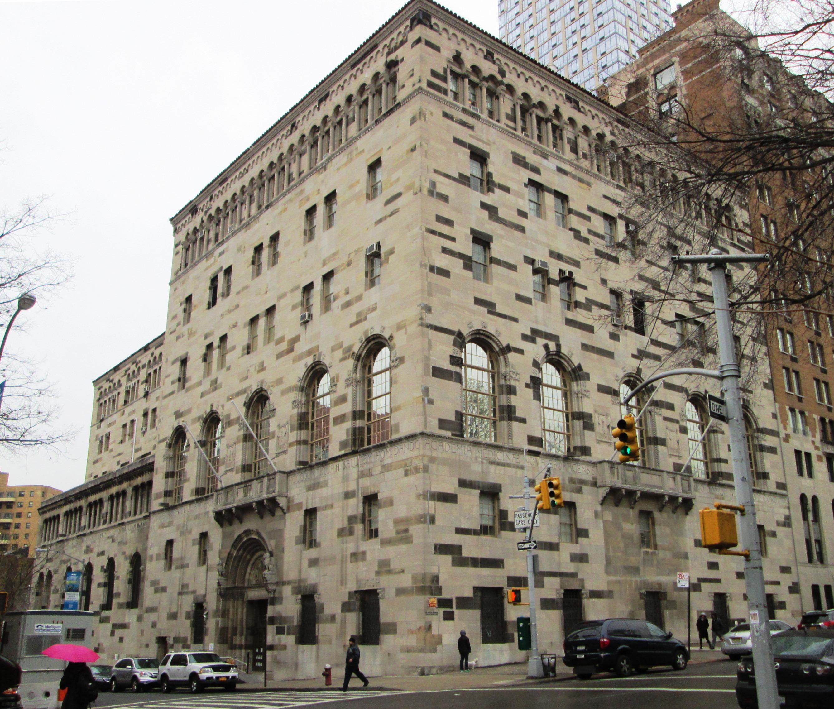 The New York Academy of Medicine was founded in 1847 a voice for the medical profession in medical practice and public health reform. It established the Metropolitan Board of Health, the first modern municipal public health authority in the United States. In 1926, the Academy moved to its current location, a new building designed in an eclectic style by York & Sawyer at 2 East 103rd Street at the corner of Fifth Avenue, across from Central Park in the East Harlem neighborhood of Manhattan, New York City. The Academy Library is one of the three largest medical collections in the United States and is open to general public. (Source: AIA Guide to NYC (5th ed.))